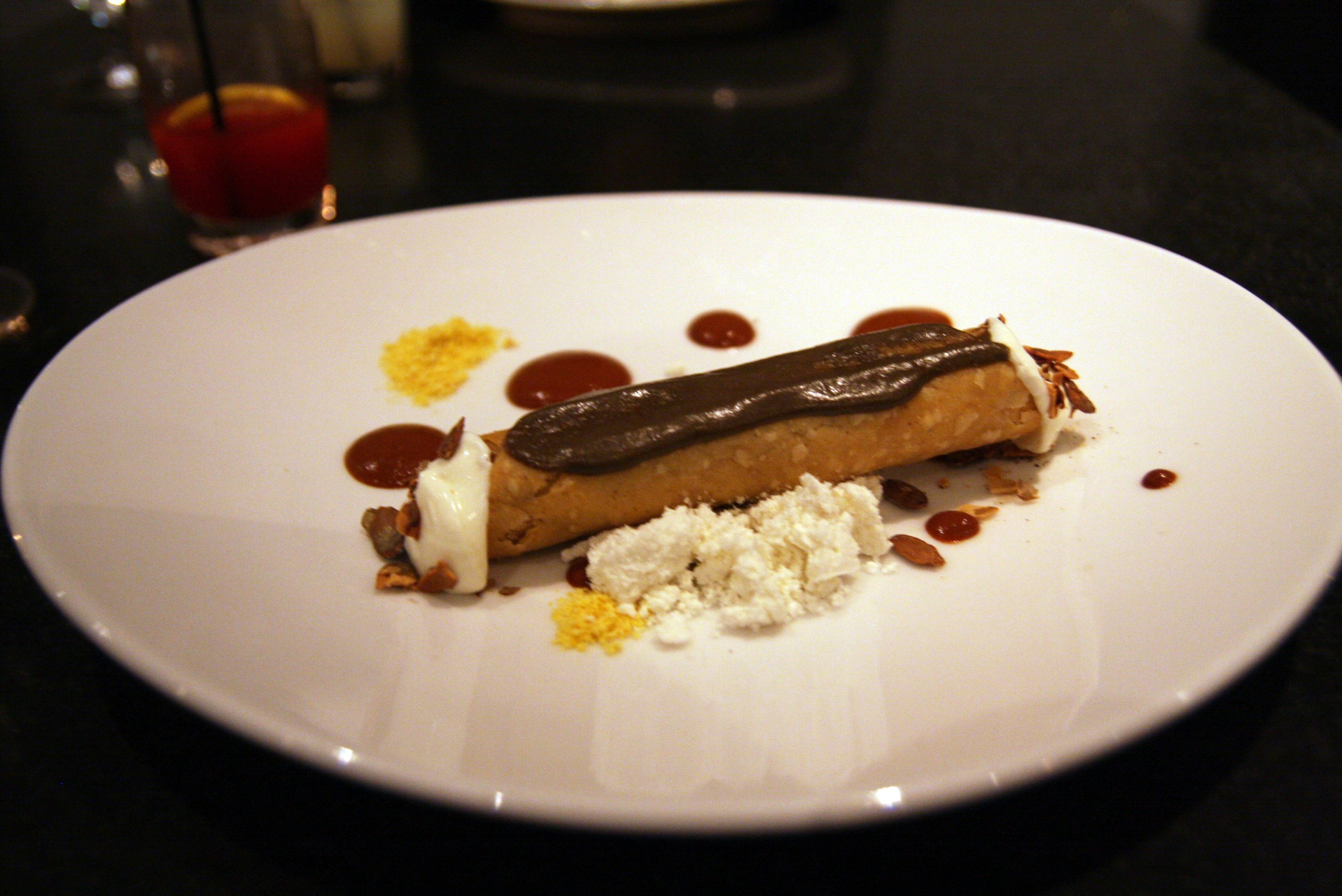 Corn Smut and Roasted Duck Yep, this cannoli is no dessert!!